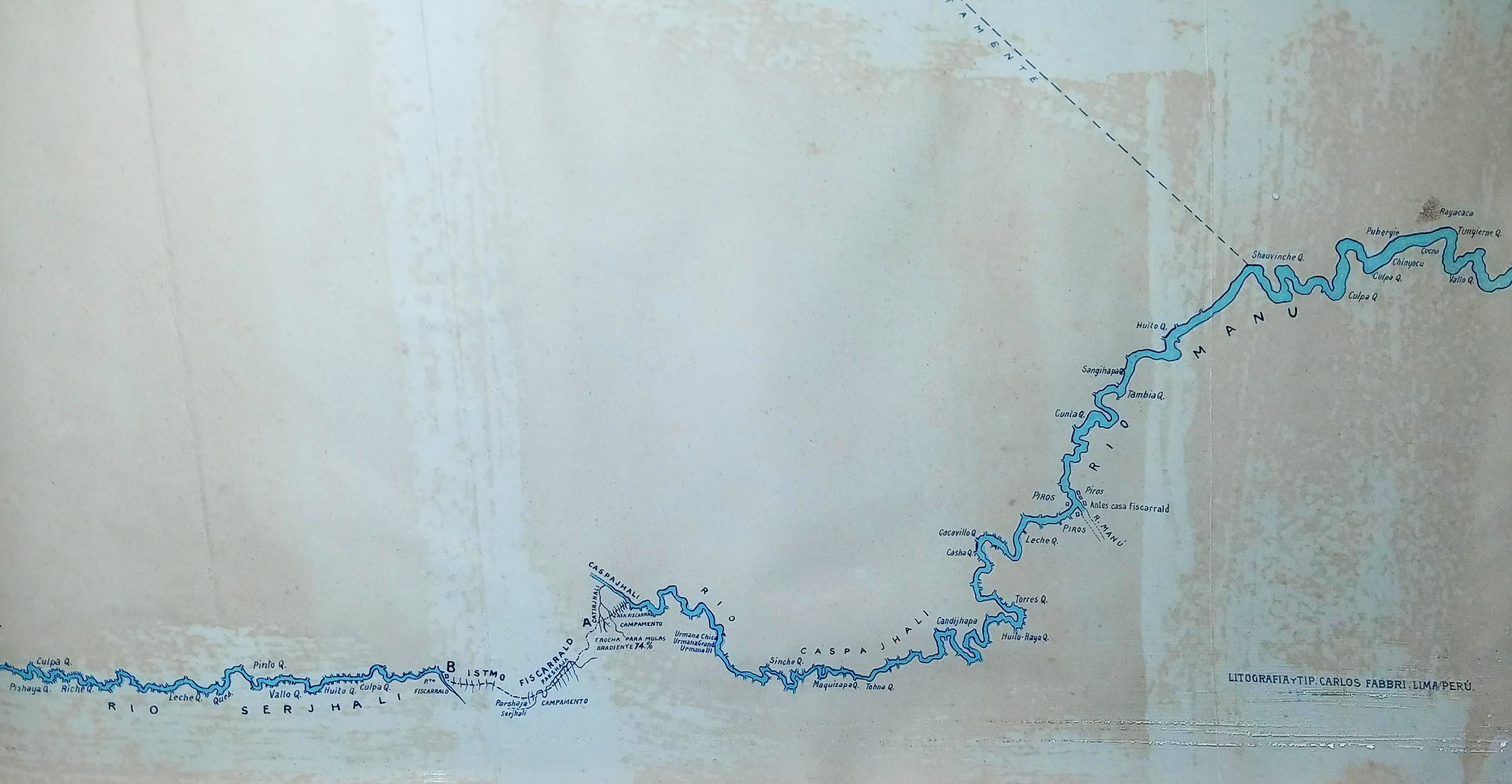 Detail view of the Fitzcarrald Ishtmus (Istmo Fitzcarral a.k.a. Istmo Fitz-Carrall) as mapped in 1904 by Rafael E. Baluarte. The Ishtmus, discovered by Carlos Fermin Fitzcarrald, is a land bridge that is the shortest connection between the Serhali river (a tributary of the Urubamba and Amazon rivers) as well as the Caspajhali river, a tributary of the Madre de Dios river. The significance of this land bridge is that it connected Iquitos and Puerto Maldonado (and in extension, Bolivia) for the rubber trade in the early 20th century, a significant discovery for the rubber trade.